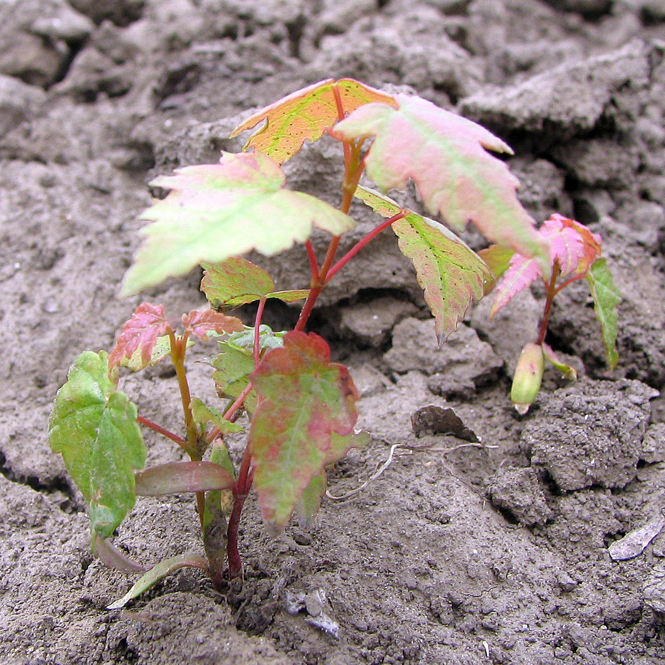 Acer rubrum seedlings